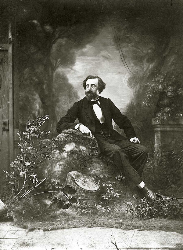 Autoportrait